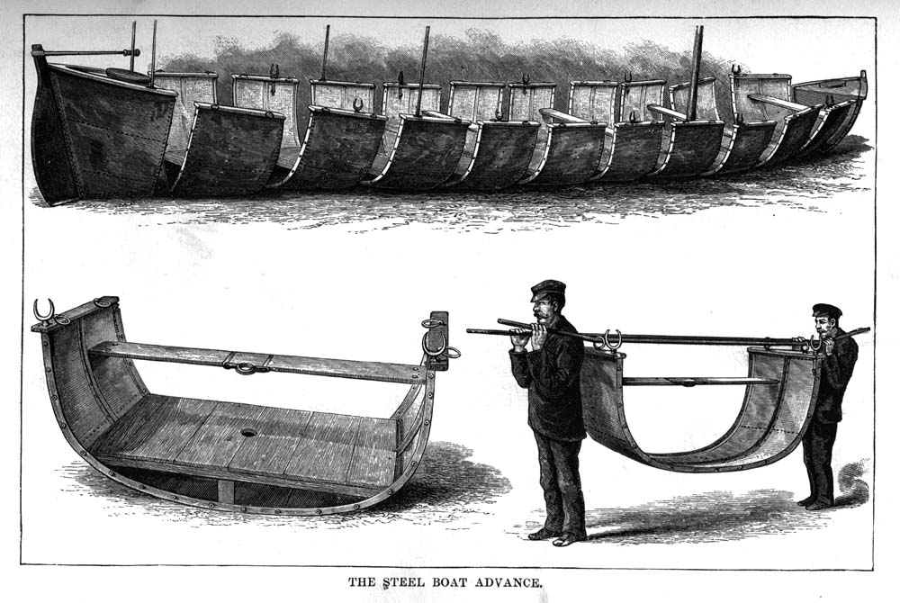 "THE STEEL BOAT ADVANCE"